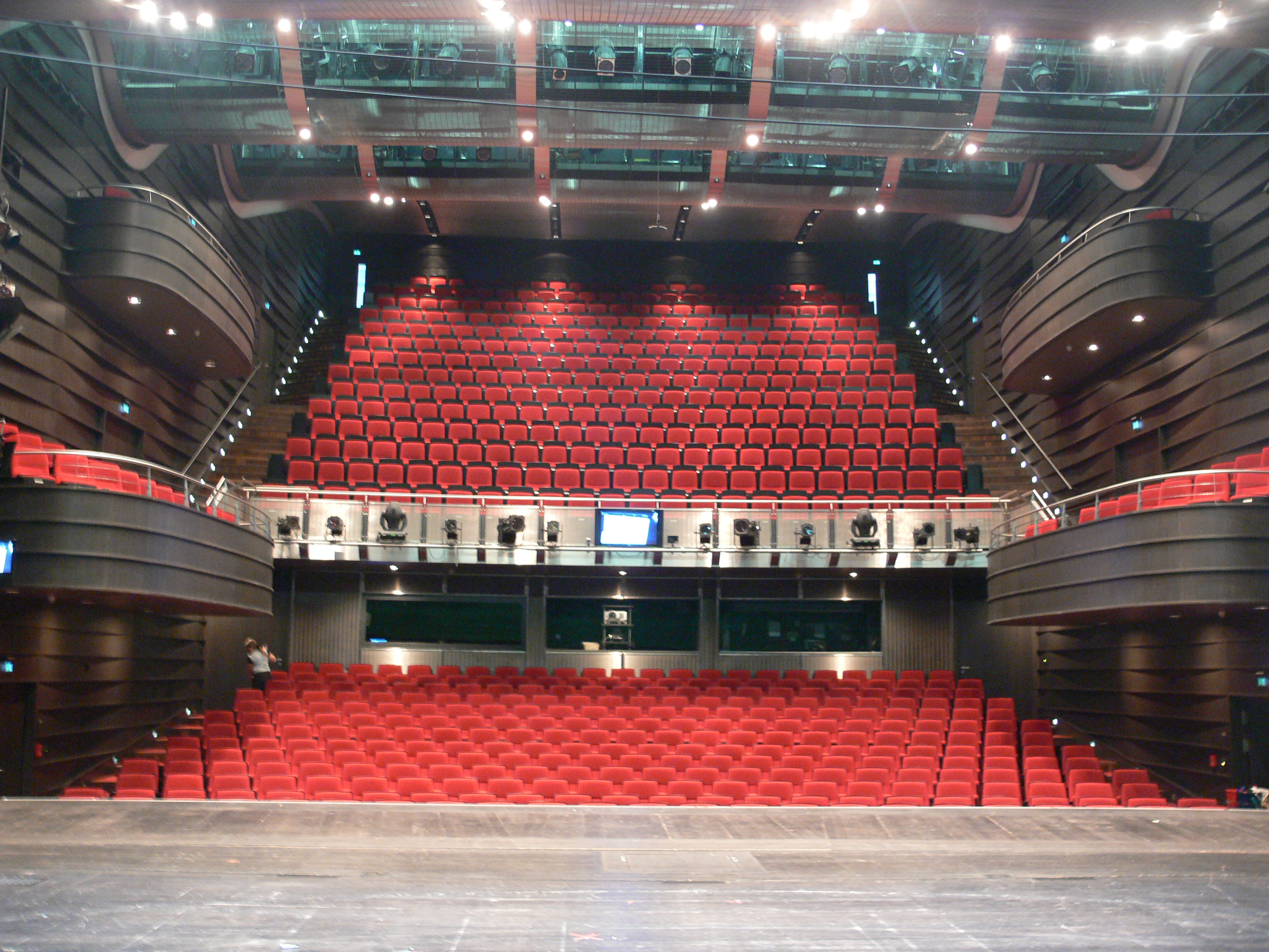 Auditorium (view from the stage) of Bielefeld Opera in Bielefeld, North Rhine-Westphalia, Germany.